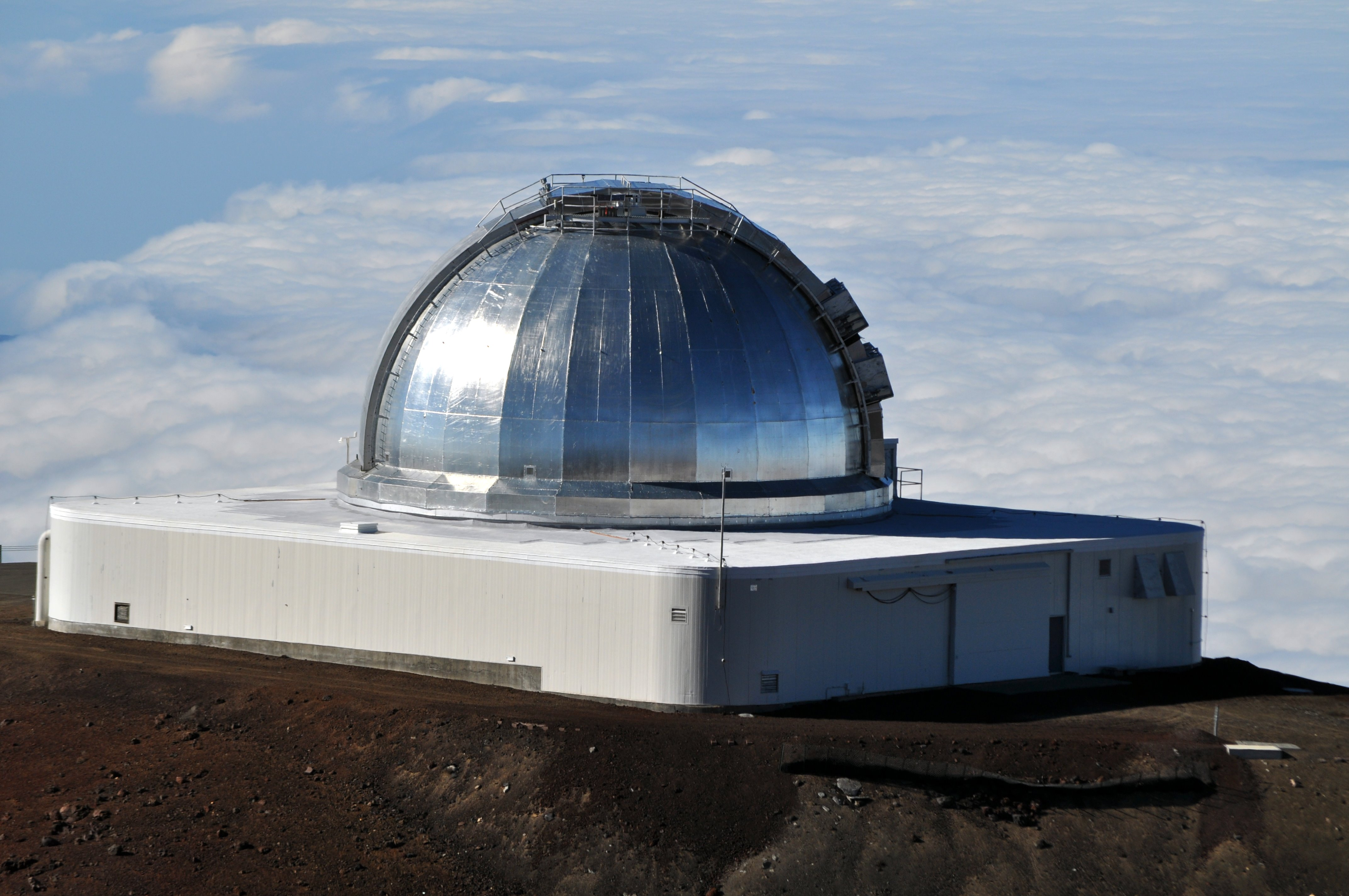 on the summit of Mauna Kea